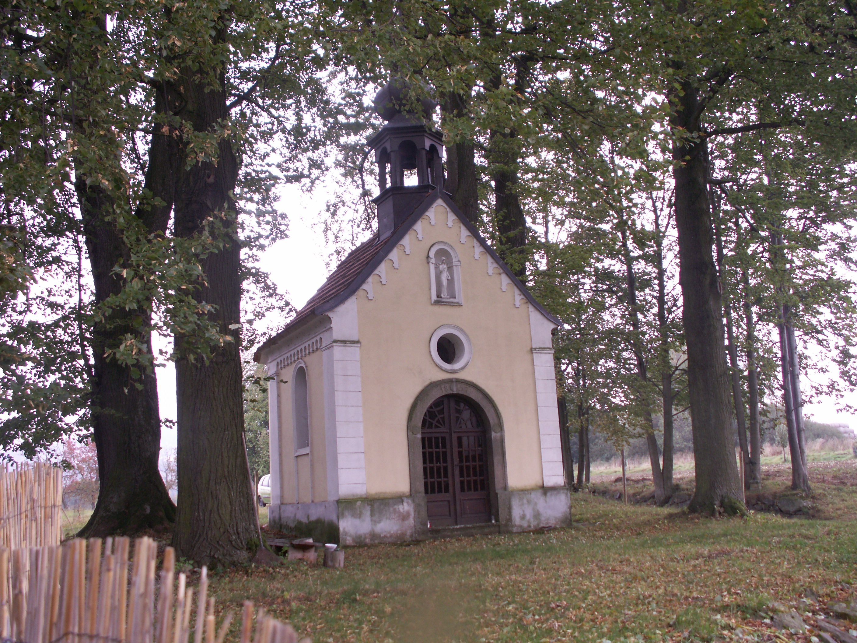 Bedřichov (Horní Stropnice), okres České Budějovice, kaple z roku 1885